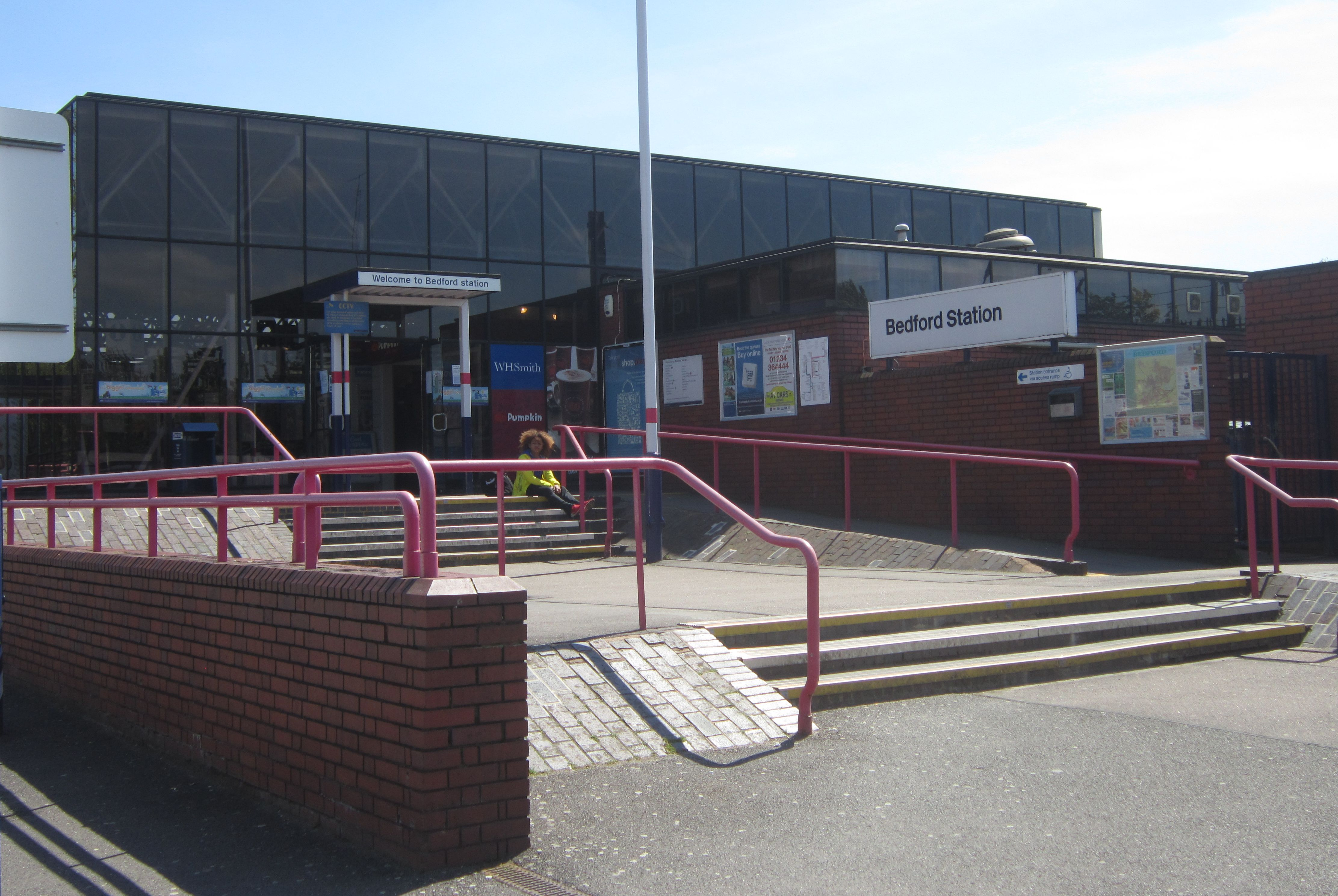 Bedford railway station